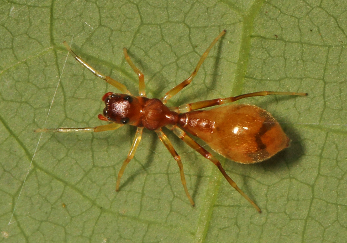 Ant-mimic Jumping Spider - Synemosina formica, Leesylvania State Park, Woodbridge, Virginia